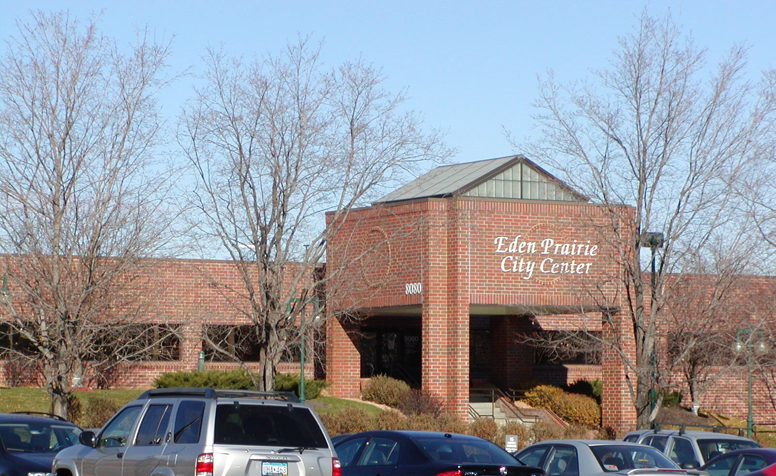 taken by William Wesen